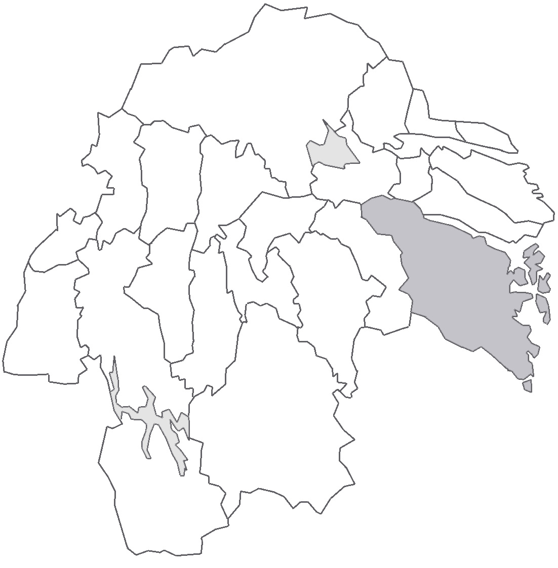 Map describing the location of Hammarkind Hundred in Östergötland County, Sweden.